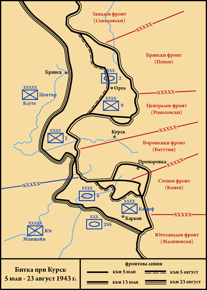 Battle of Kursk (5 July - 23 August 1943)